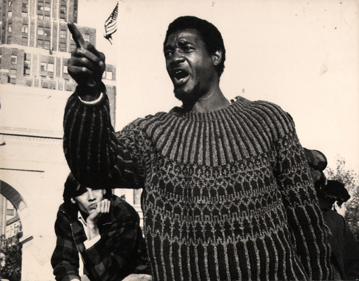 Big Brown, the poet, in Washington Square Park in 1965, black and white photograph by LeRoy W. Henderson.